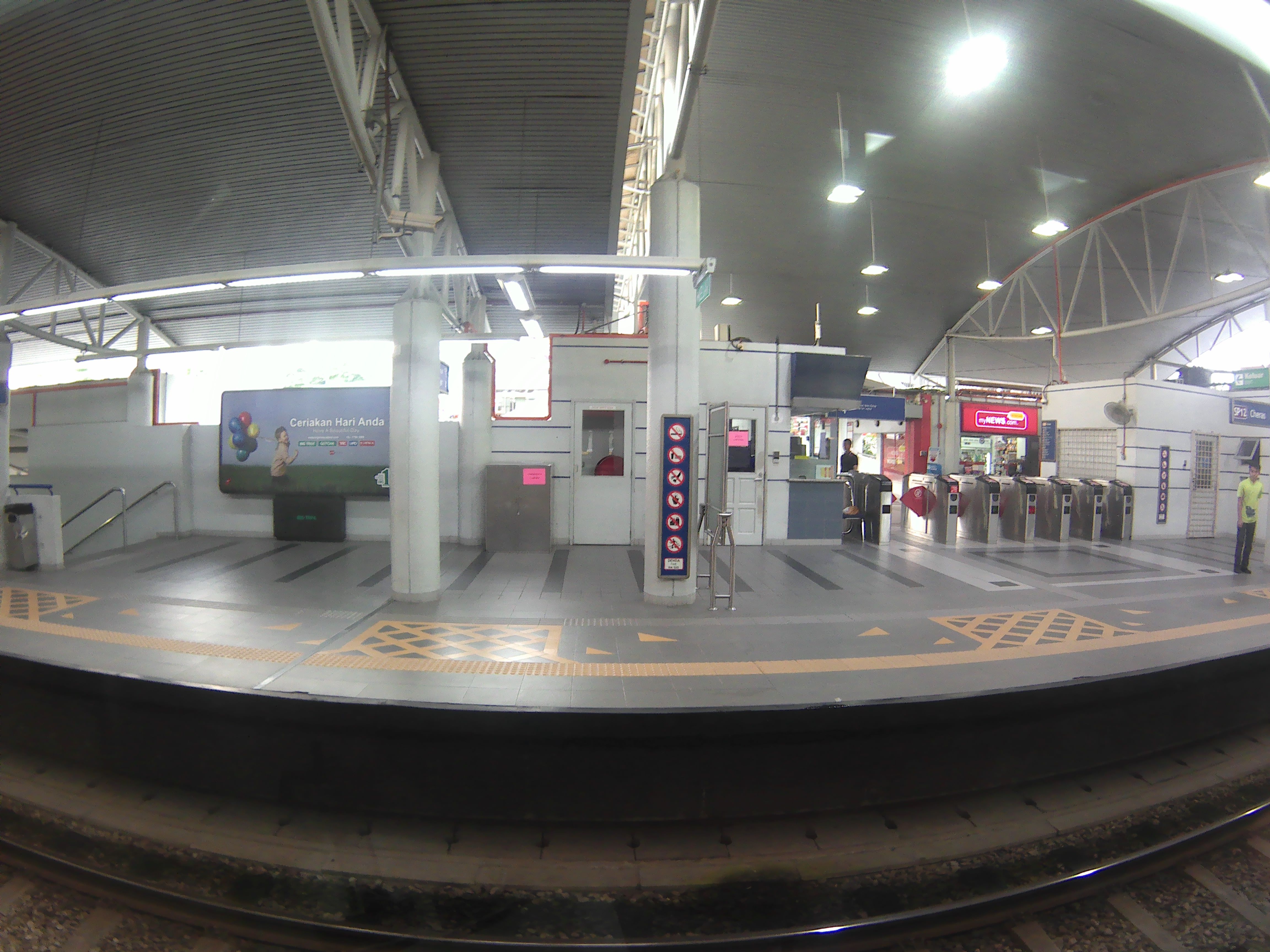 Cheras LRT station platform